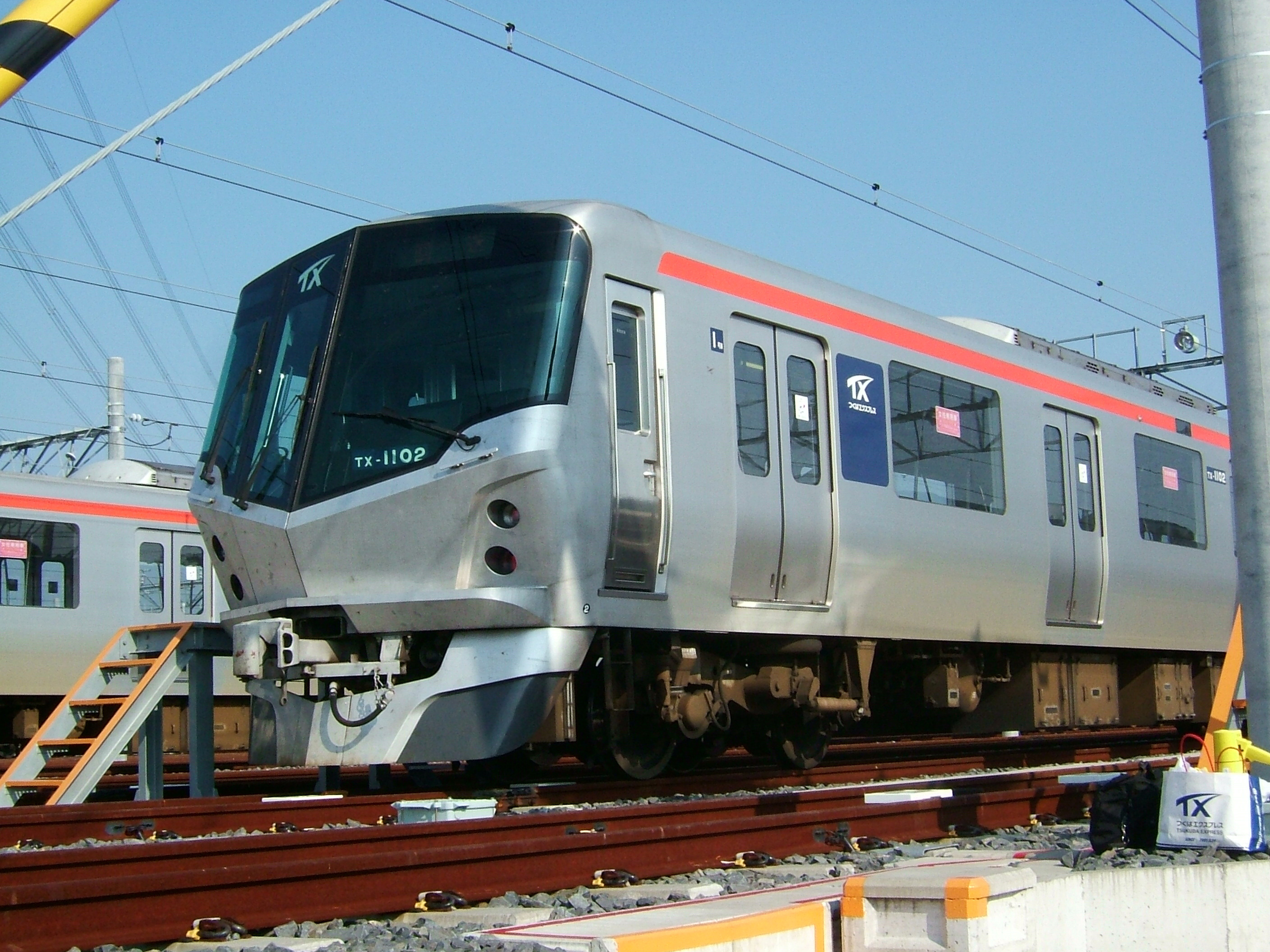 Metropolitan Intercity Railway type TX-1000